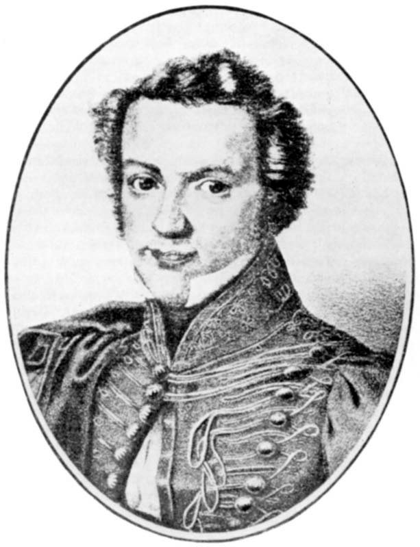 Potrait of the author and poet, Michael Beer (1800–1833), brother of Giacomo Meyerbeer